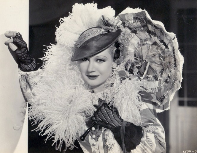 Queenie Smith in the film Mississippi (1935) - publicity still (original image cropped : see source)